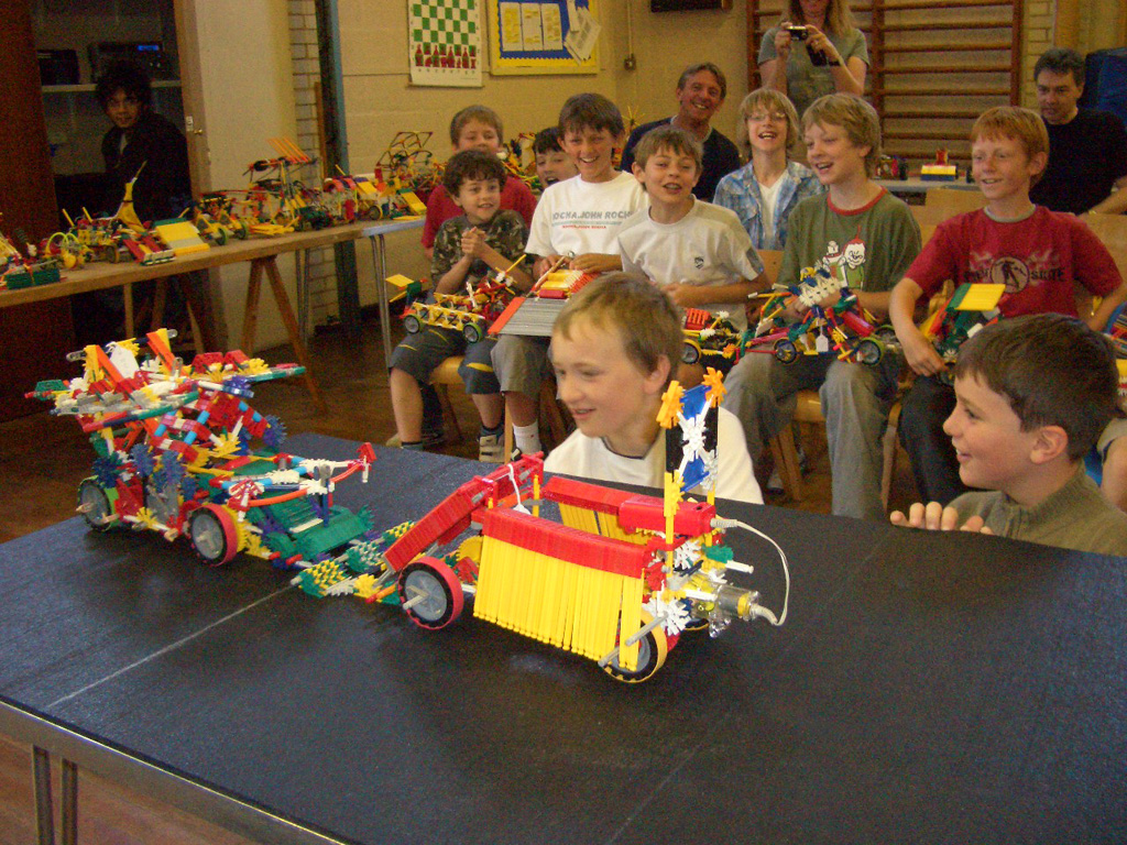 Own photograph, taken May 2007 Source